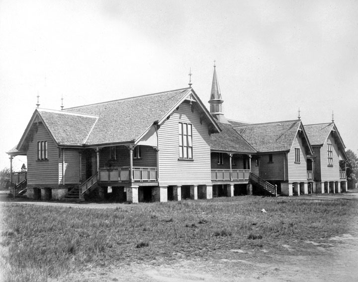 Central State School, Maryborough. (Alternative names include Central State School for Boys and Central State School for Girls.)